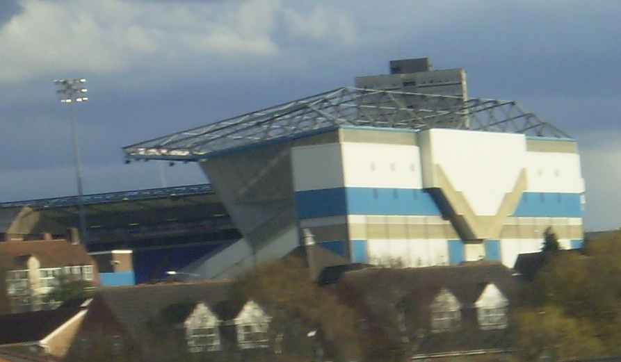 The Railway Stand of Birmingham City F.C.'s St Andrew's Stadium viewed from across the railway